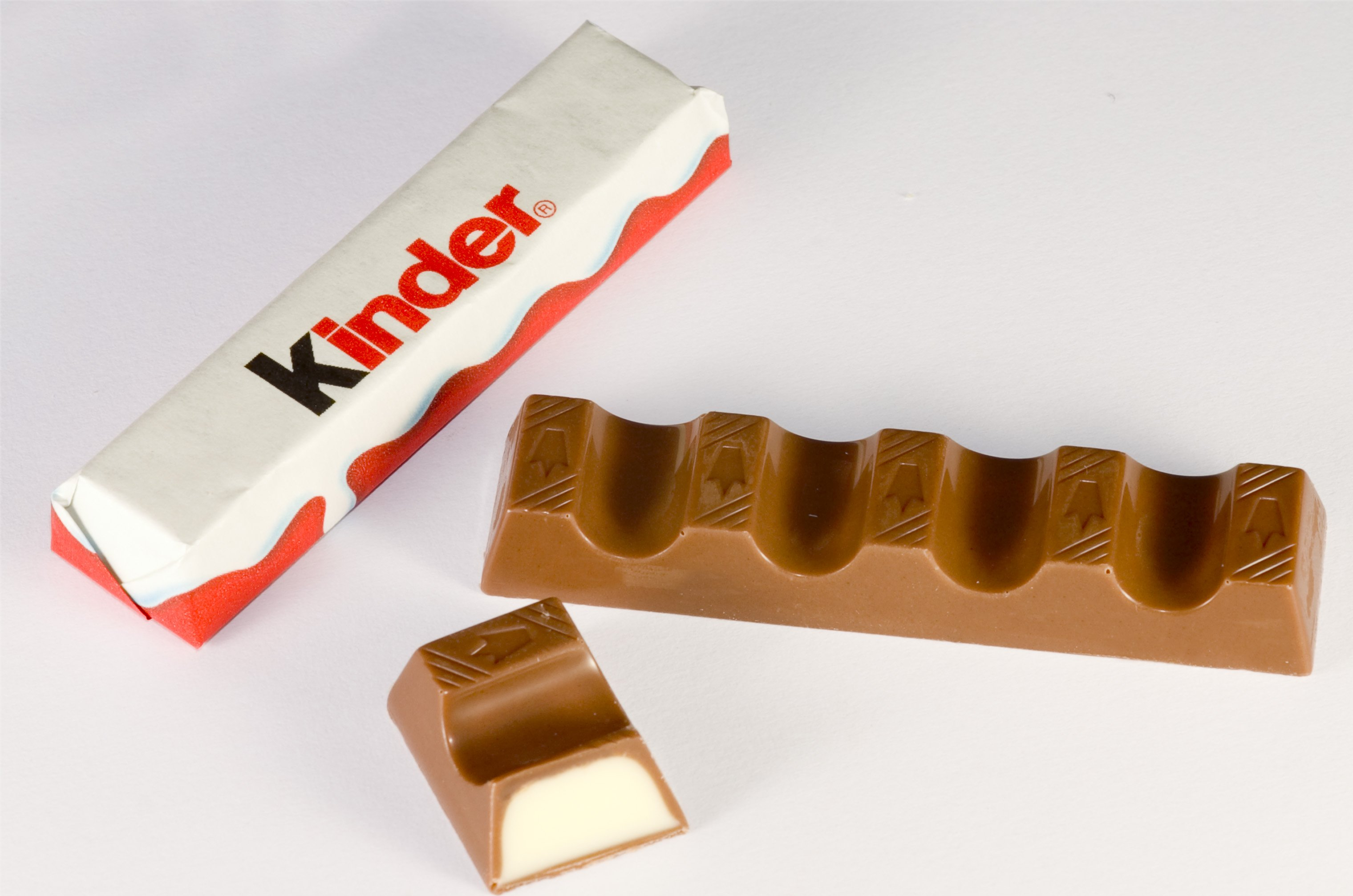 Kinder Chocolate of Ferrero